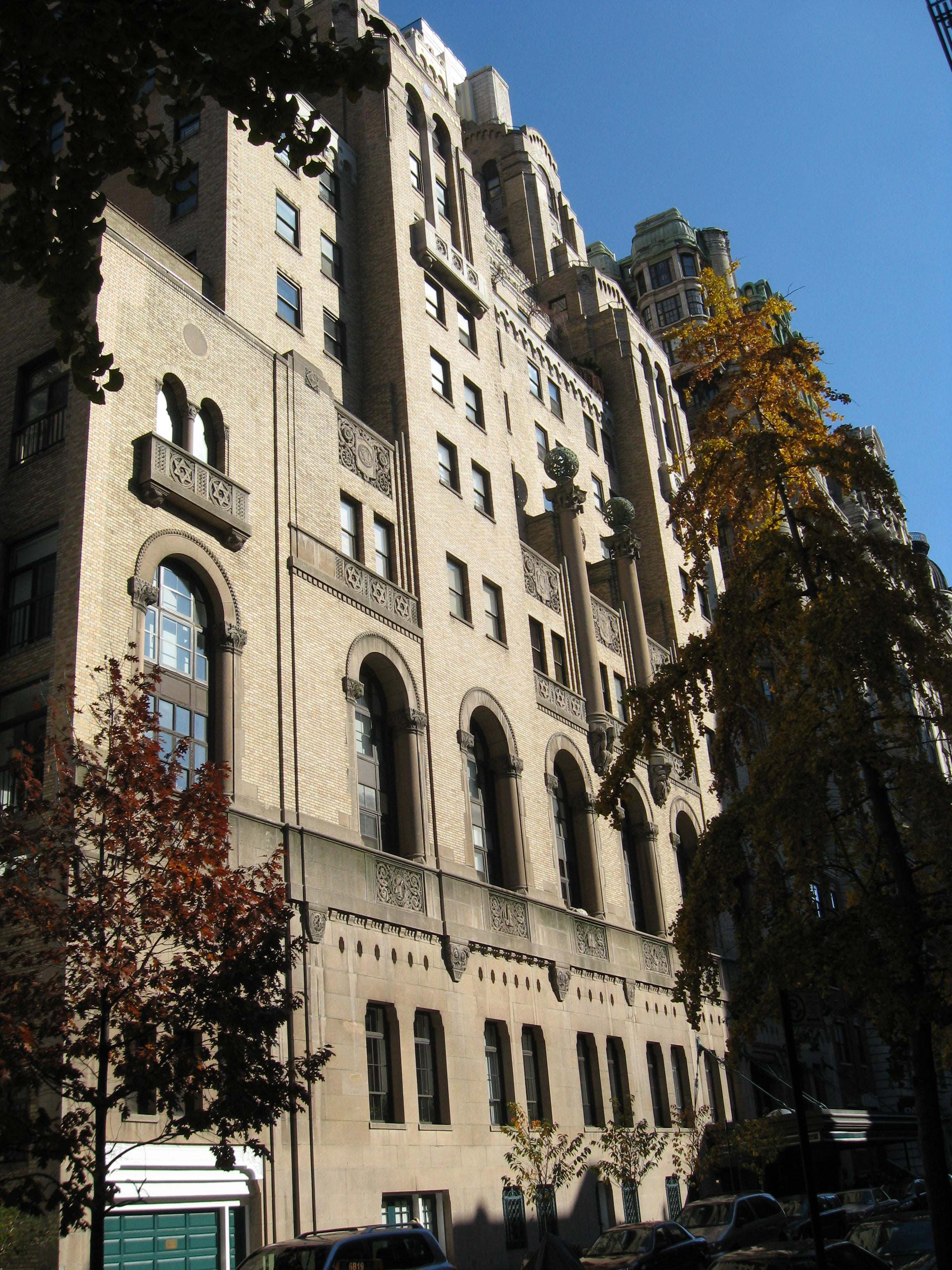 Looking northeast at Level Club on West 73d Street, Manhattan on a sunny midday